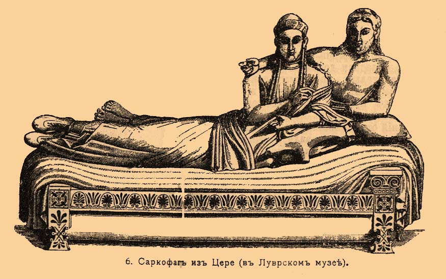 Illustration from Brockhaus and Efron Encyclopedic Dictionary (1890—1907)